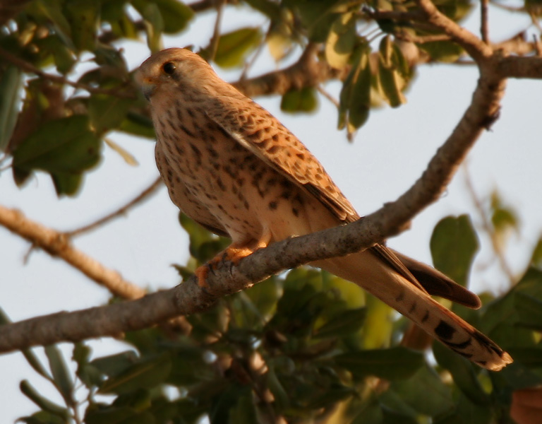 Common Kestrel, European Kestrel, Eurasian Kestrel, or Old World Kestrel Falco tinnunculus in Kinnerasani Wildlife Sanctuary, Andhra Pradesh, India.